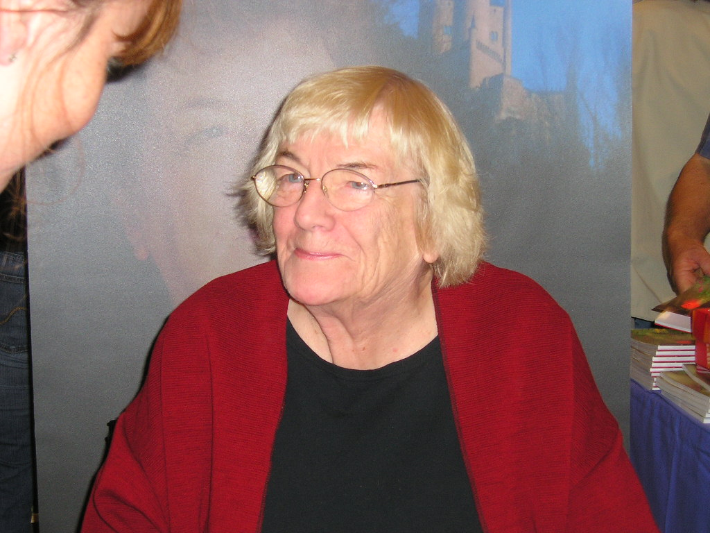 Picture taken at Gothenburg Book Fair 2005 by Lennart Guldbrandsson